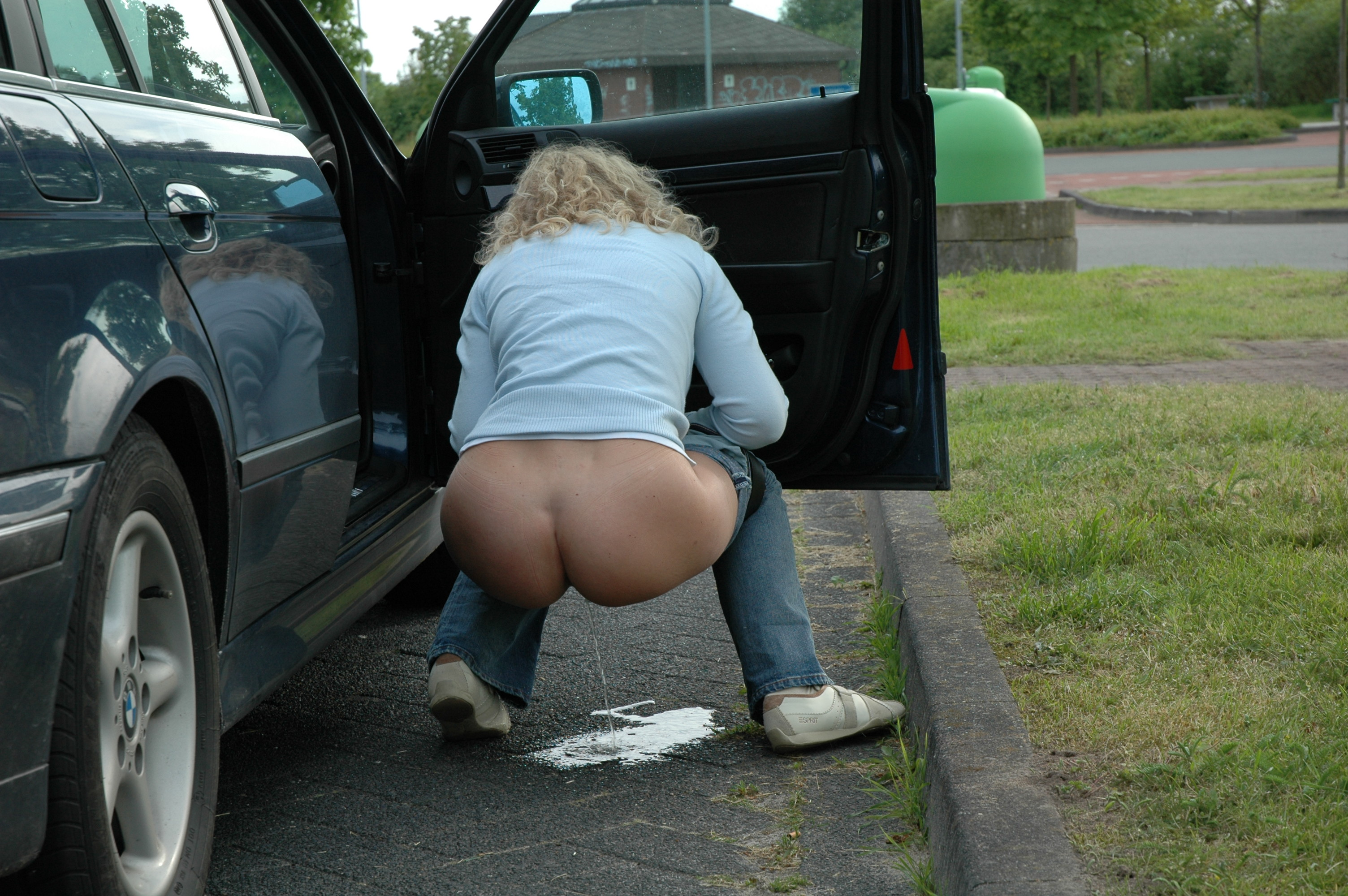 Blonde woman urinating in a squatting position next to a car, with buttocks exposed